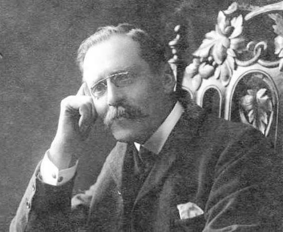 Henry Hosey Davis (1855-1954), British chess player and chess problem composer